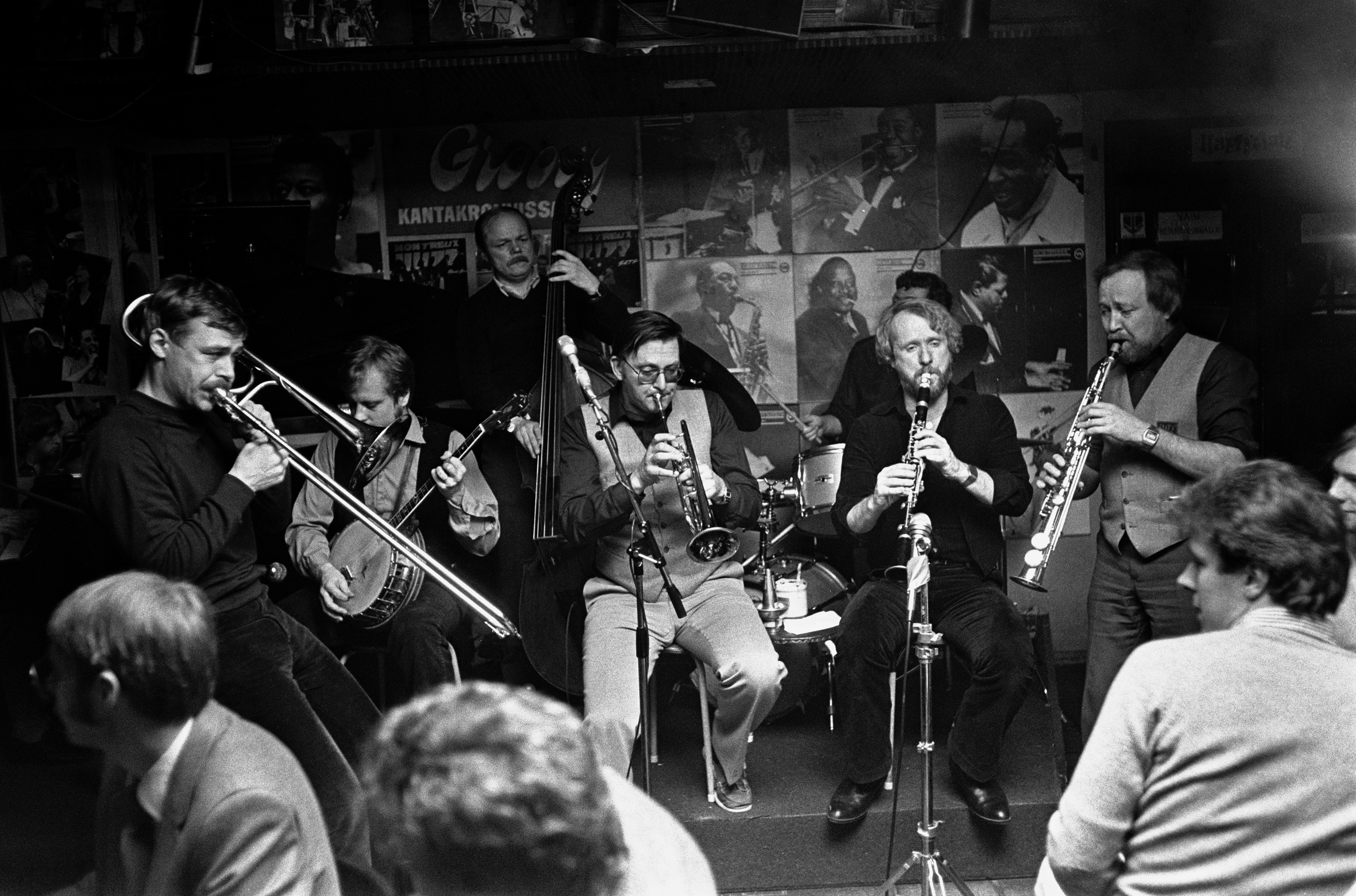 Photograph of the Finnish Jazz ensemble “DDT Jazzband” performing at the Jazz restaurant Groovy in Helsinki.